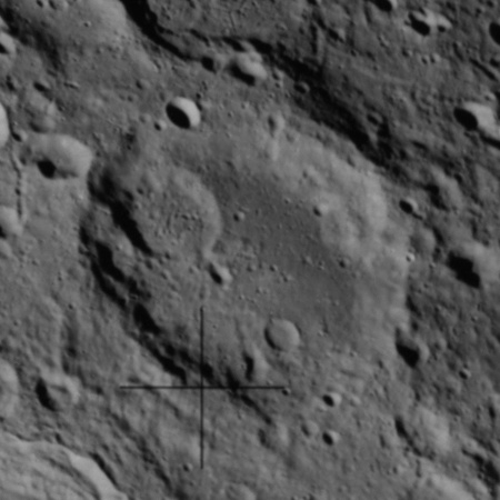 Oblique view of Guyot, facing northeast, on the far side of the moon.